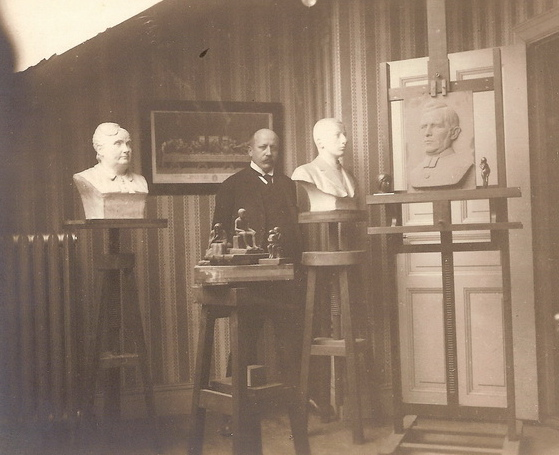 Johannes Collin (1873-1951), Swedish sculptor and poet in his studio.